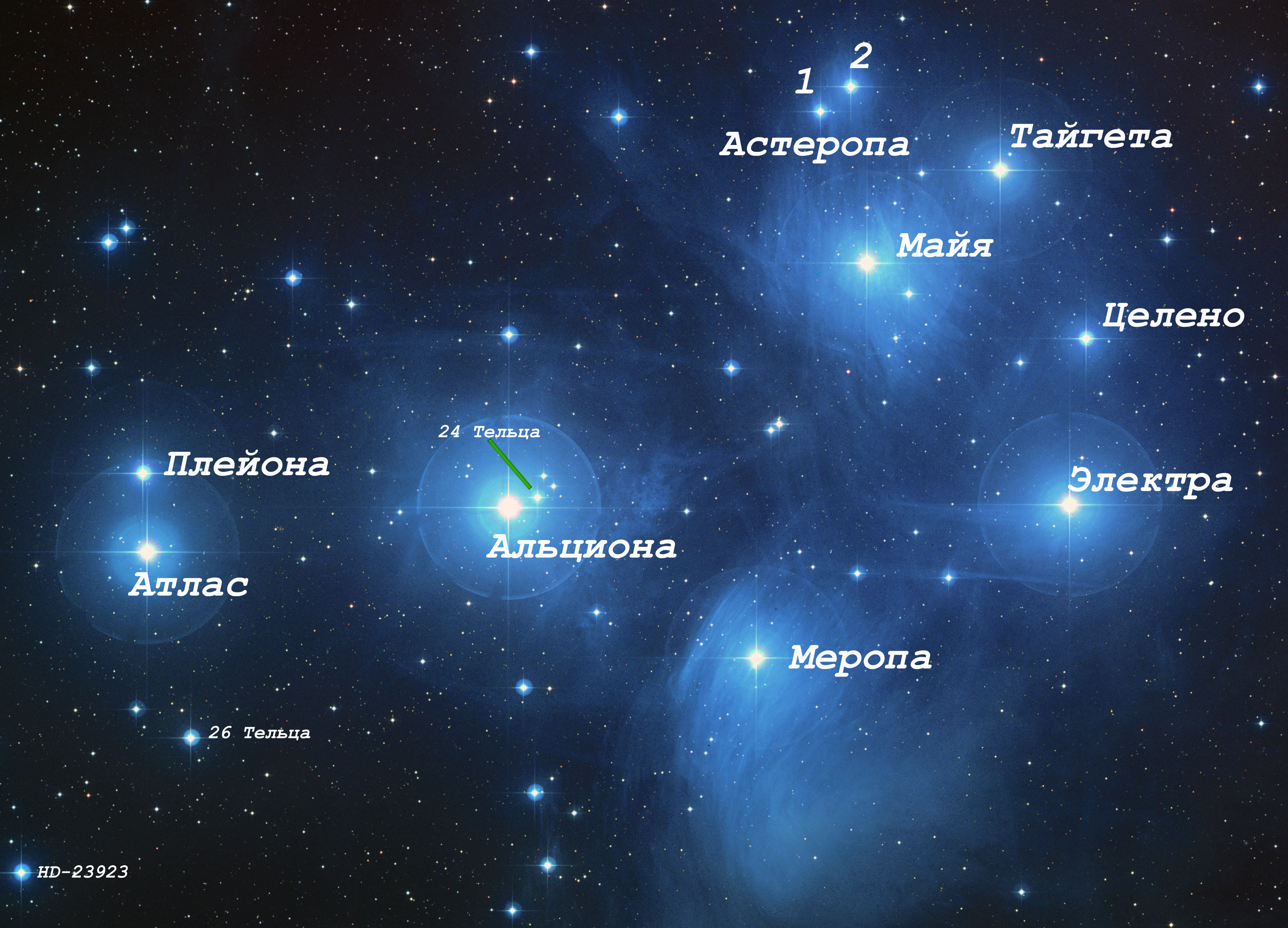 Pleiades Star Cluster